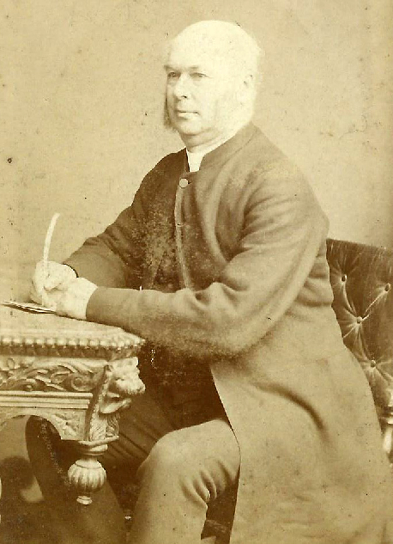 Reverand John Brewster Meadows, owner of Belstead Lodge, Ipswich, Suffolk